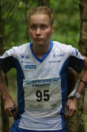 Heli Jukkola at WOC 2006